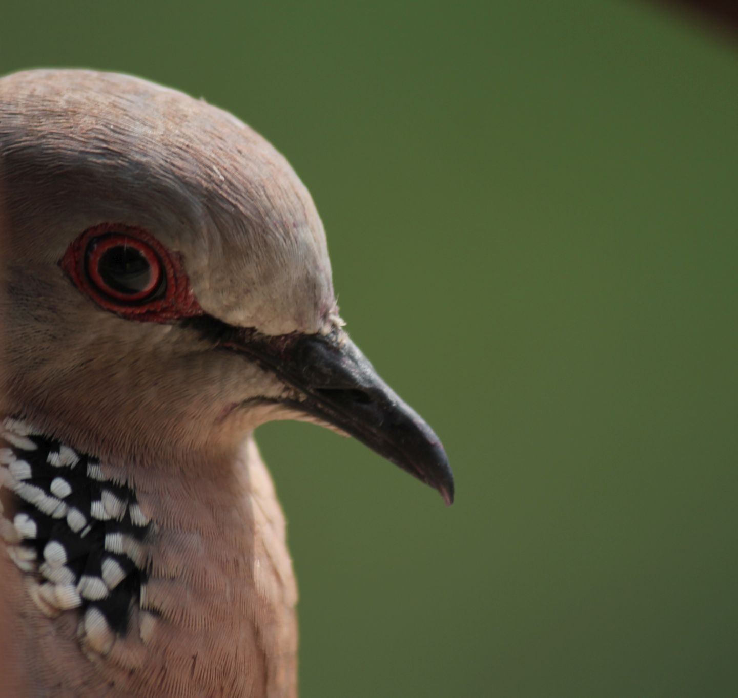 Close up of Spotted Dove Spilopelia chinensis suratensis, Kolkata, West Bengal, India